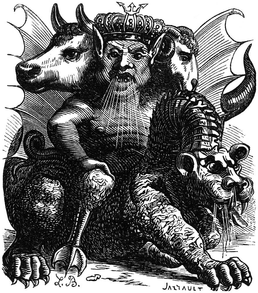 Depiction of the demon Asmodaeus, a king of demons, from J.A.S. Collin de Plancy. Dictionnaire Infernal. Paris: E. Plon, 1863. Page 55.